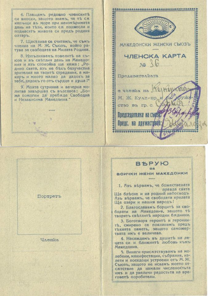 Membership Card of the Macedonian Women's Union